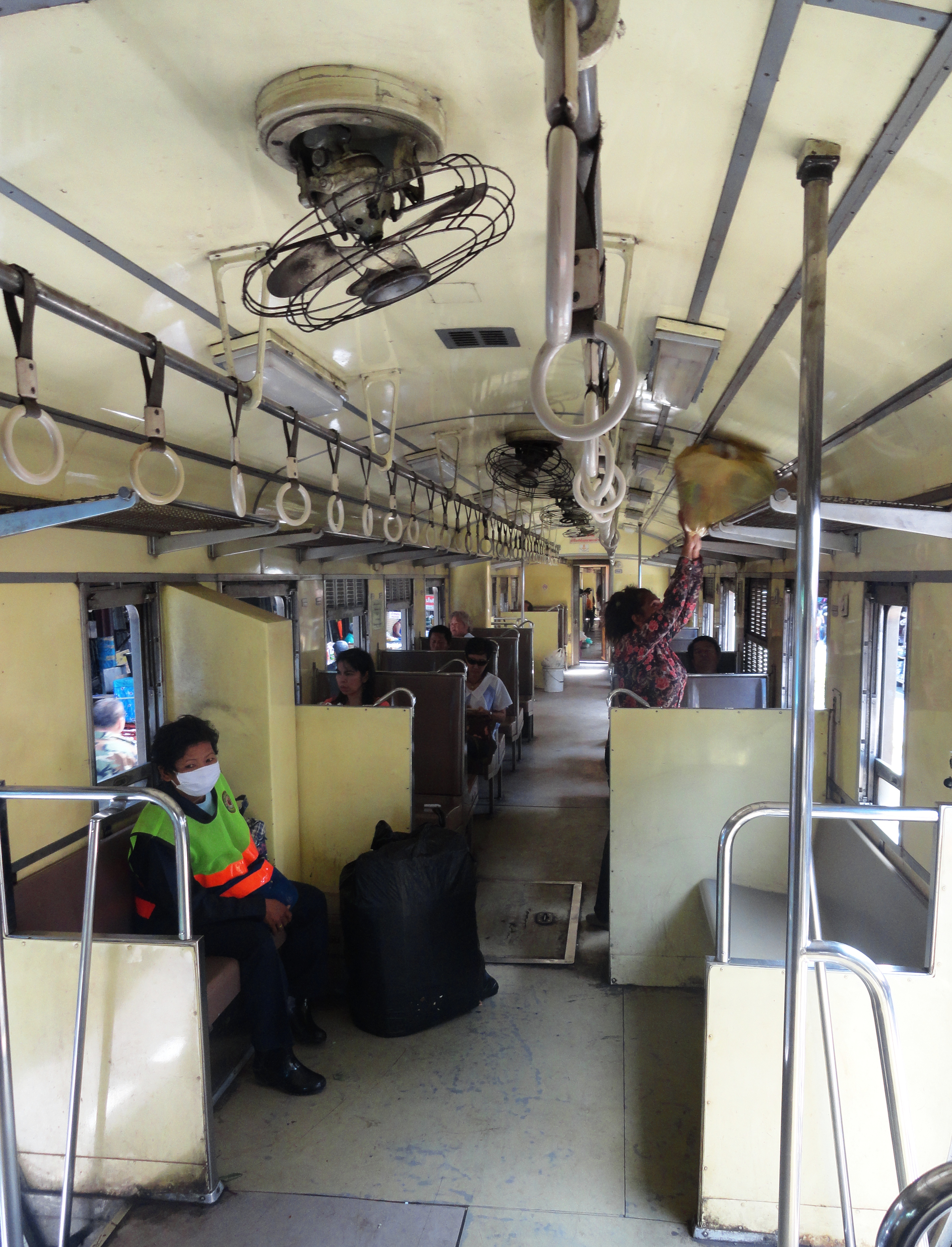 From onboard the train between Wongwian Yai and Mahachai Stations. This is the Maeklong Railway in Thailand.